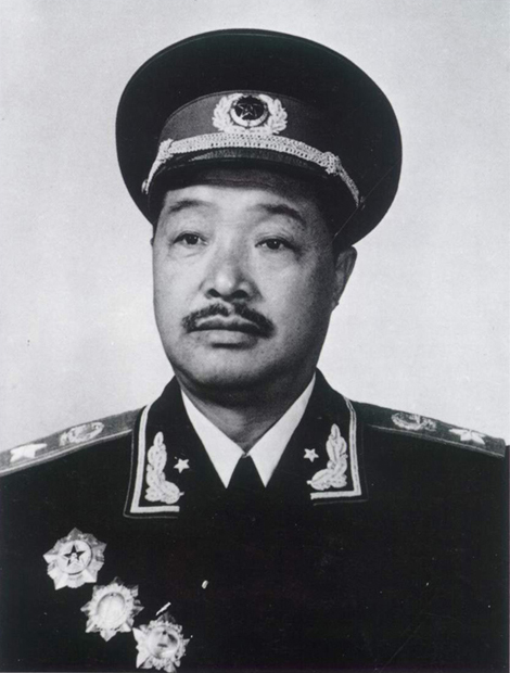 He Long (simplified